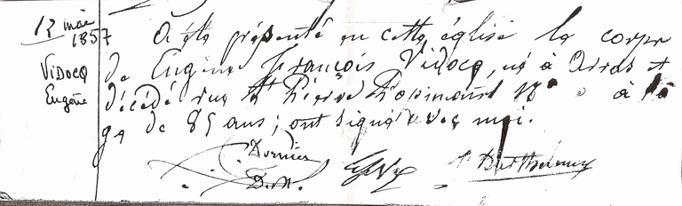 Entry in the register of deaths of the church Saint-Denys in Paris concerning Eugène François Vidocq, 12th May 1857